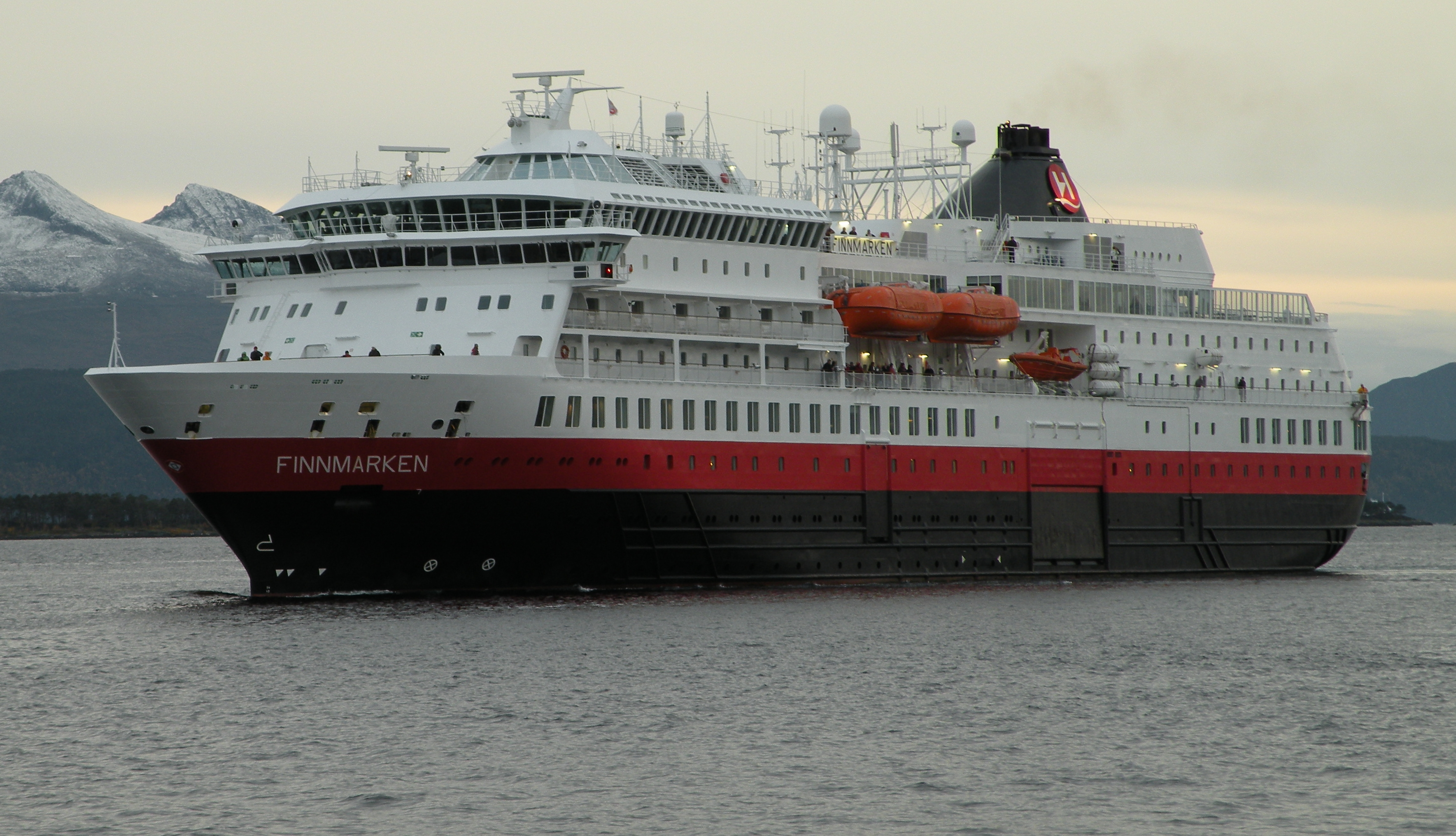 Coastal express ship (hurtigruten) MS Finnmarken arrives in Molde